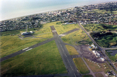 Aerial view of Paraparaumu airport (NZPP) near Wellington, in New Zealand.